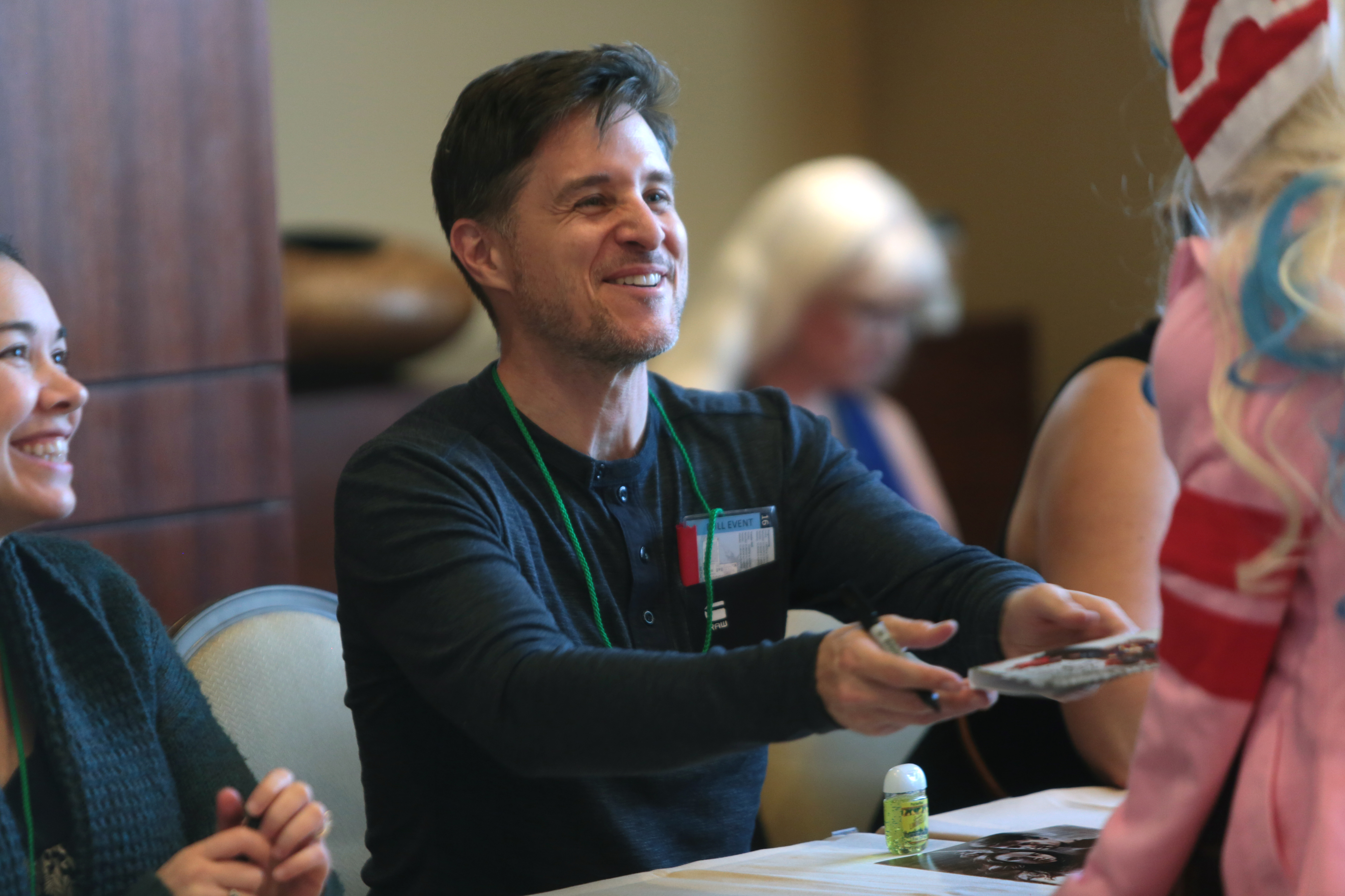 Yuri Lowenthal speaking at Saboten Con in Phoenix, Arizona.